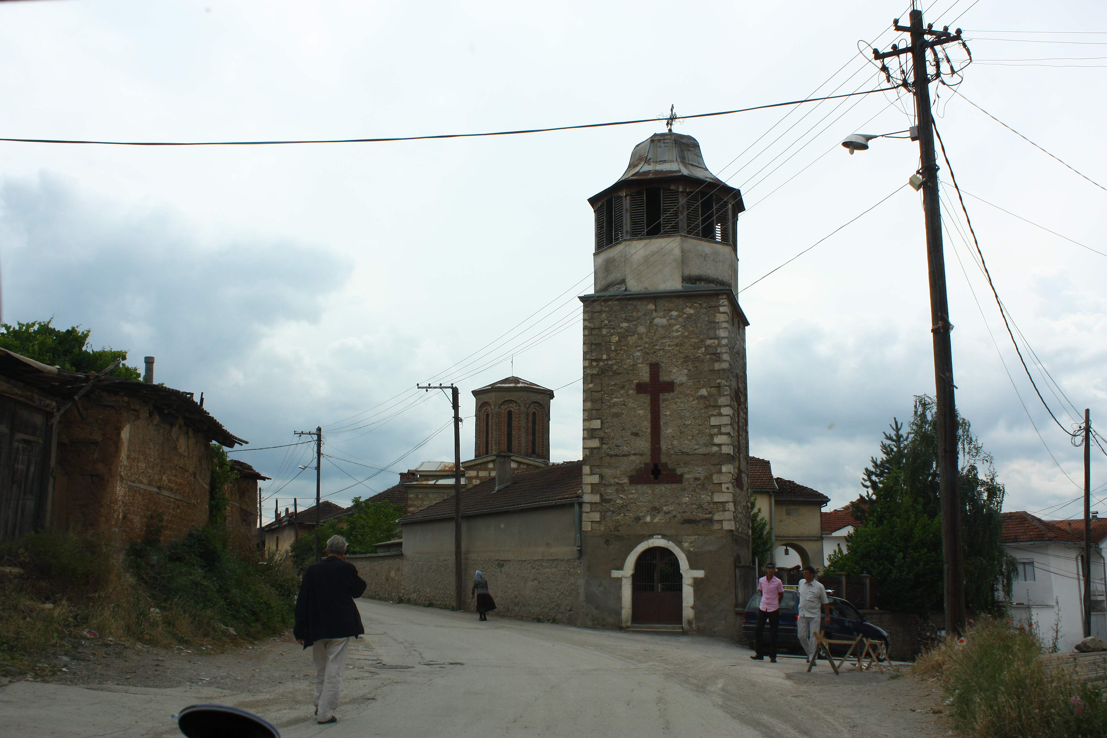 St. Petka Church in Debar, Macedonia